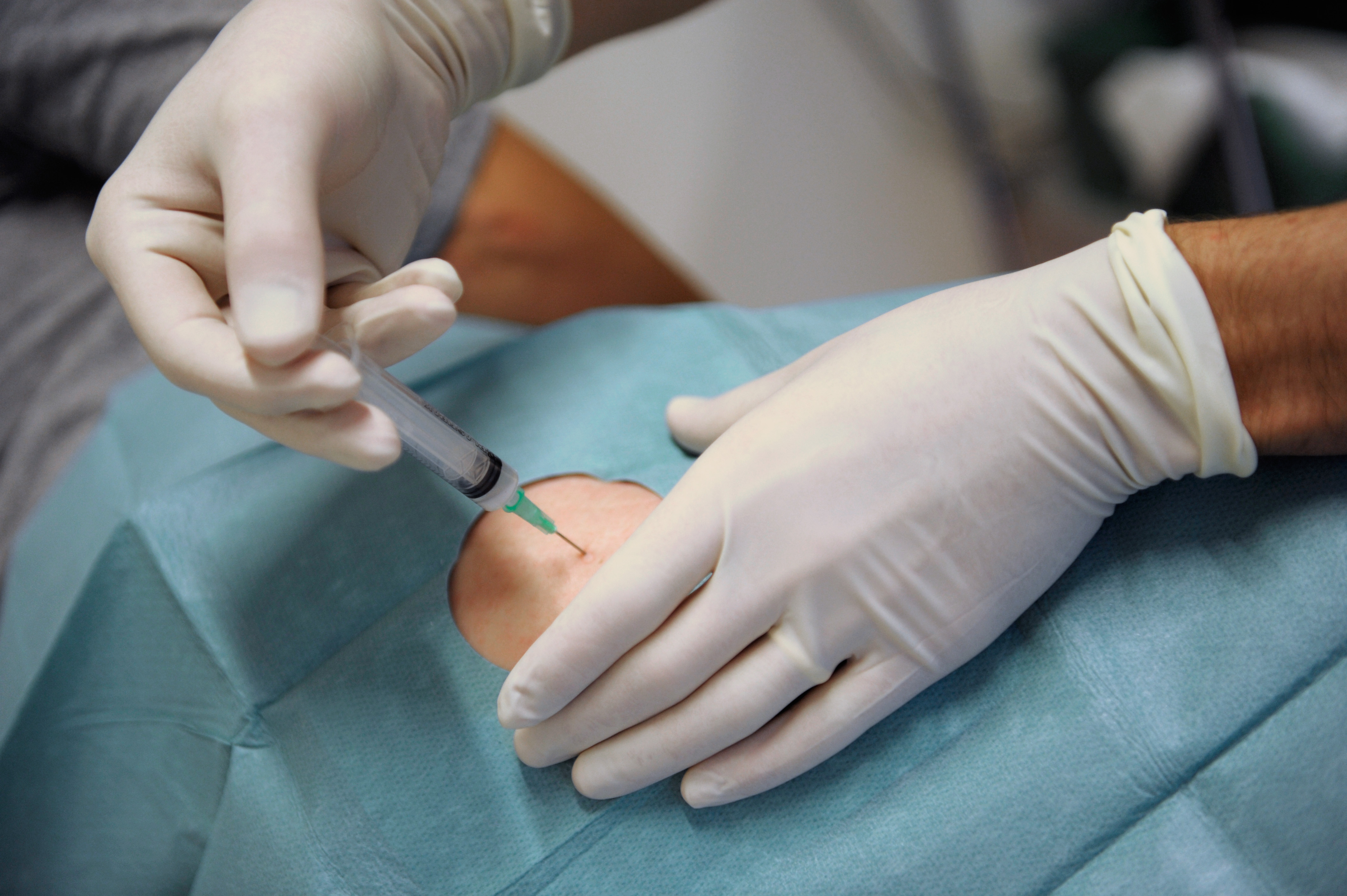 Spruta Keywords: Health, Care